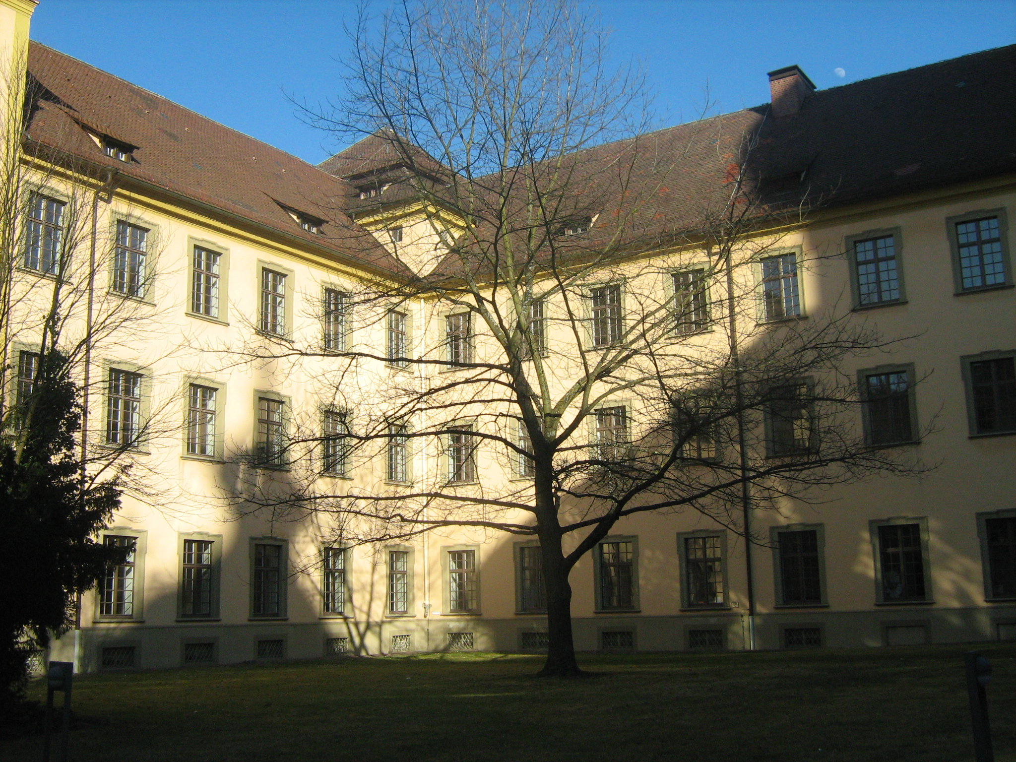 Abadía de Weingarten